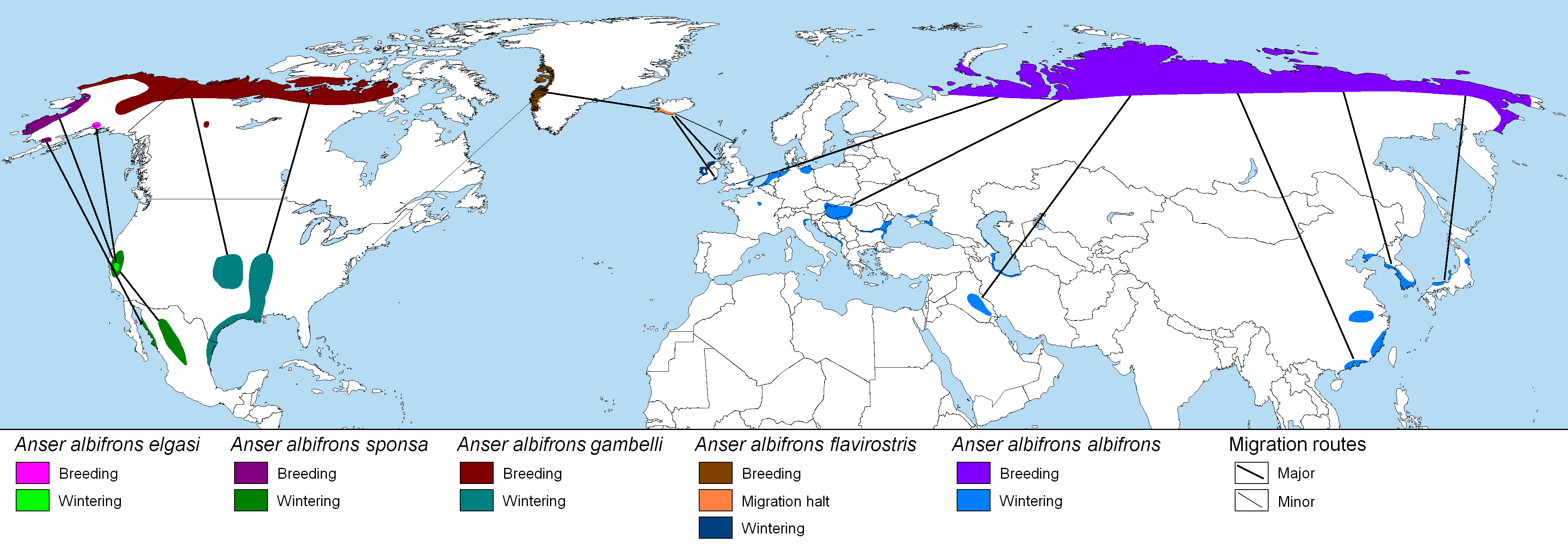 Distribution map of Anser albifrons subspecies Sources: Snow, D. W., & Perrins, C. M. (1998). The Birds of the Western Palearctic, concise ed. Oxford. Fox, A. D. & Stroud, D. A. (1981). Report of the 1979 Greenland White-fronted Goose study expedition to Eqalungmiut Nunât, West Greenland. Greenland White-fronted Goose Study Group, Aberystwyth. Sibley Guides: Distribution of Greater White-fronted Goose subspecies Several regional field guides